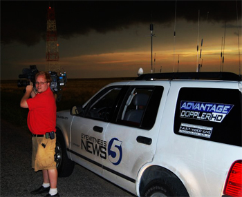 This photo appears to be of a cameraman and SUV from KOCO-TV 5, Oklahoma City, Oklahoma, USA. Location not given; could be anywhere in KOCO-TV's market area.